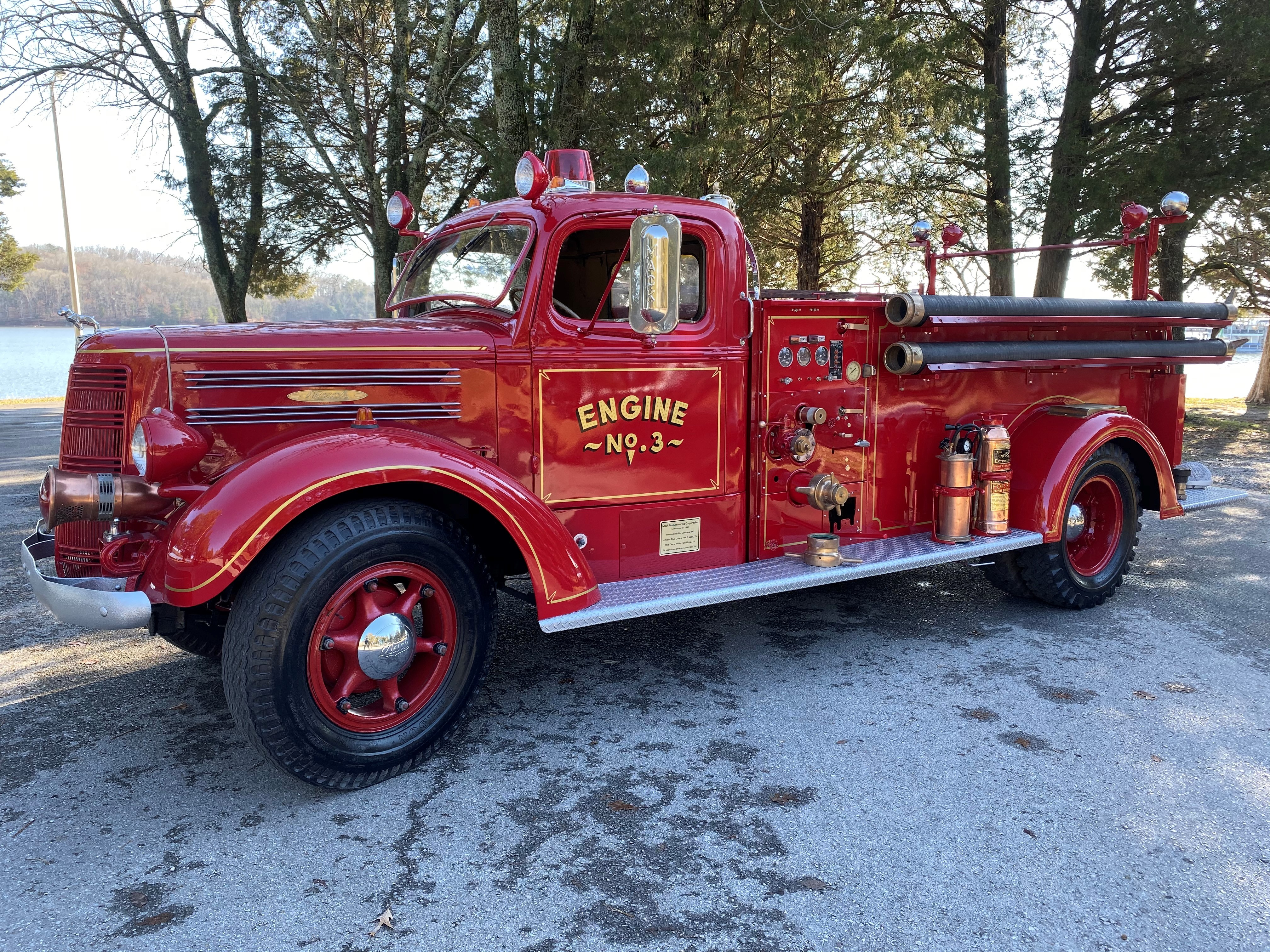 1944 Apparatus Model 45S